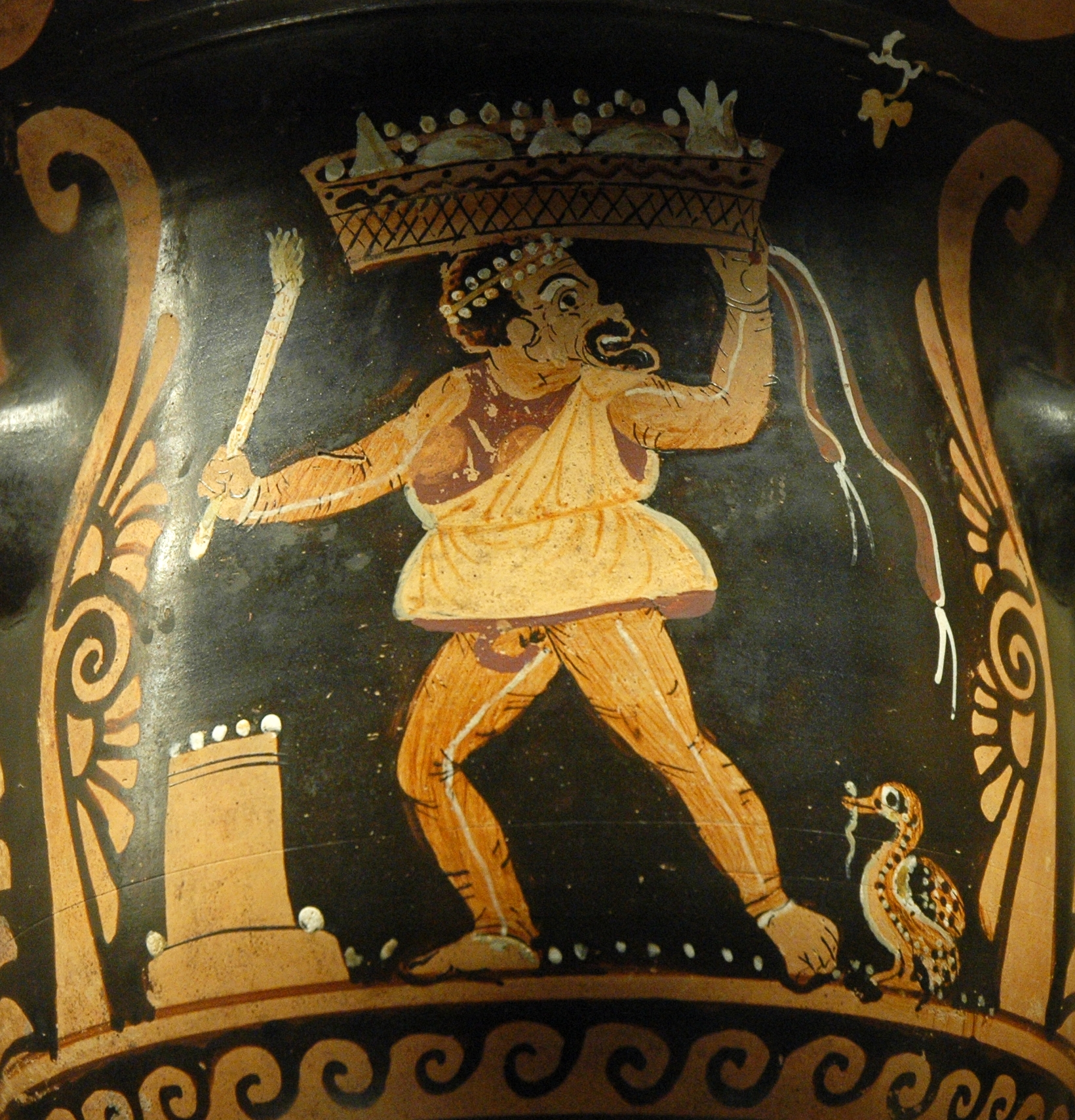 Actor of a phlyax play holding a basket. Side A of a bell-shaped crater, ca. 360 BC–350 BC, found in Paestum.